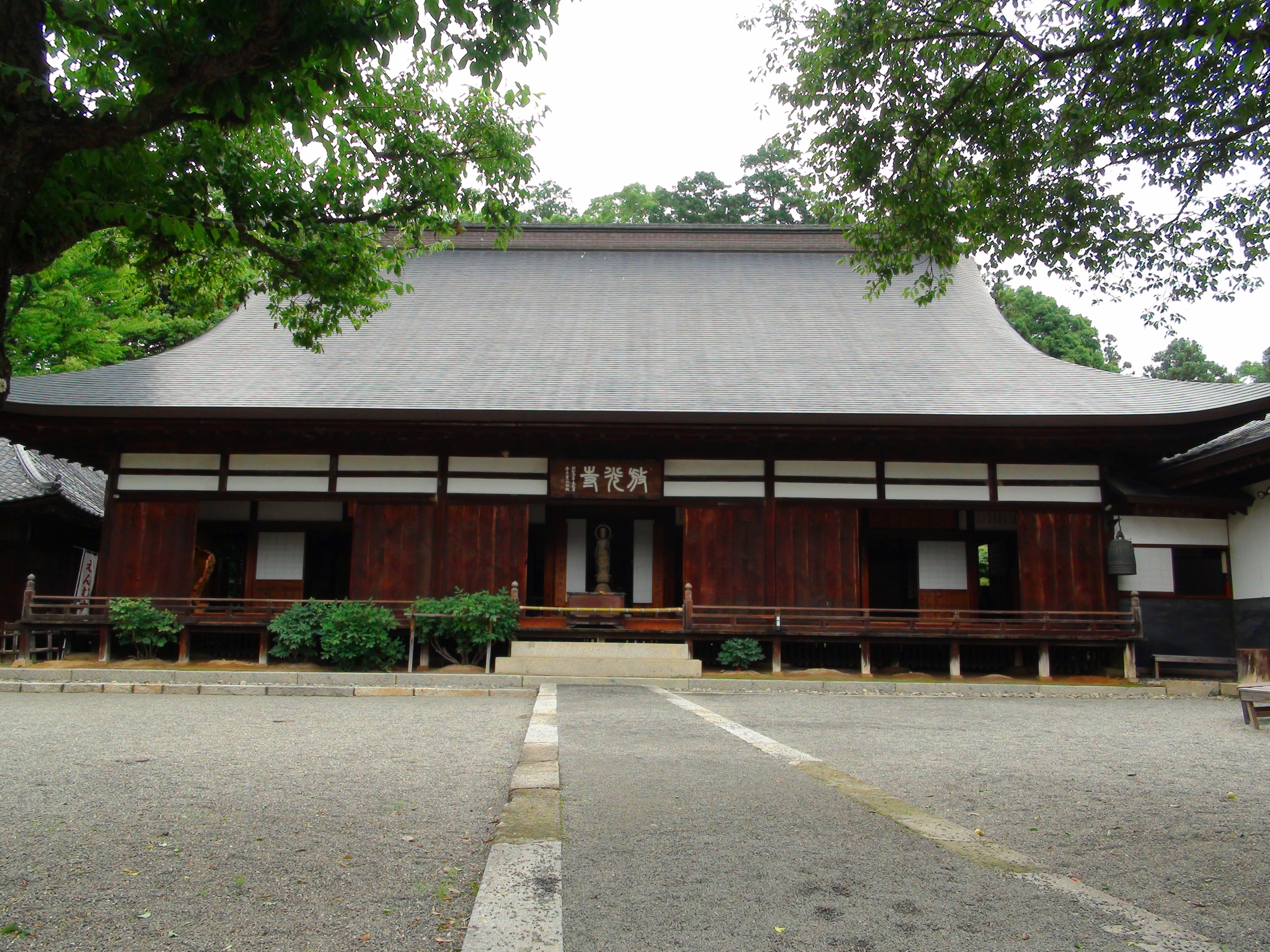 The main hall of a Buddhist temple of the Hokoji-temple